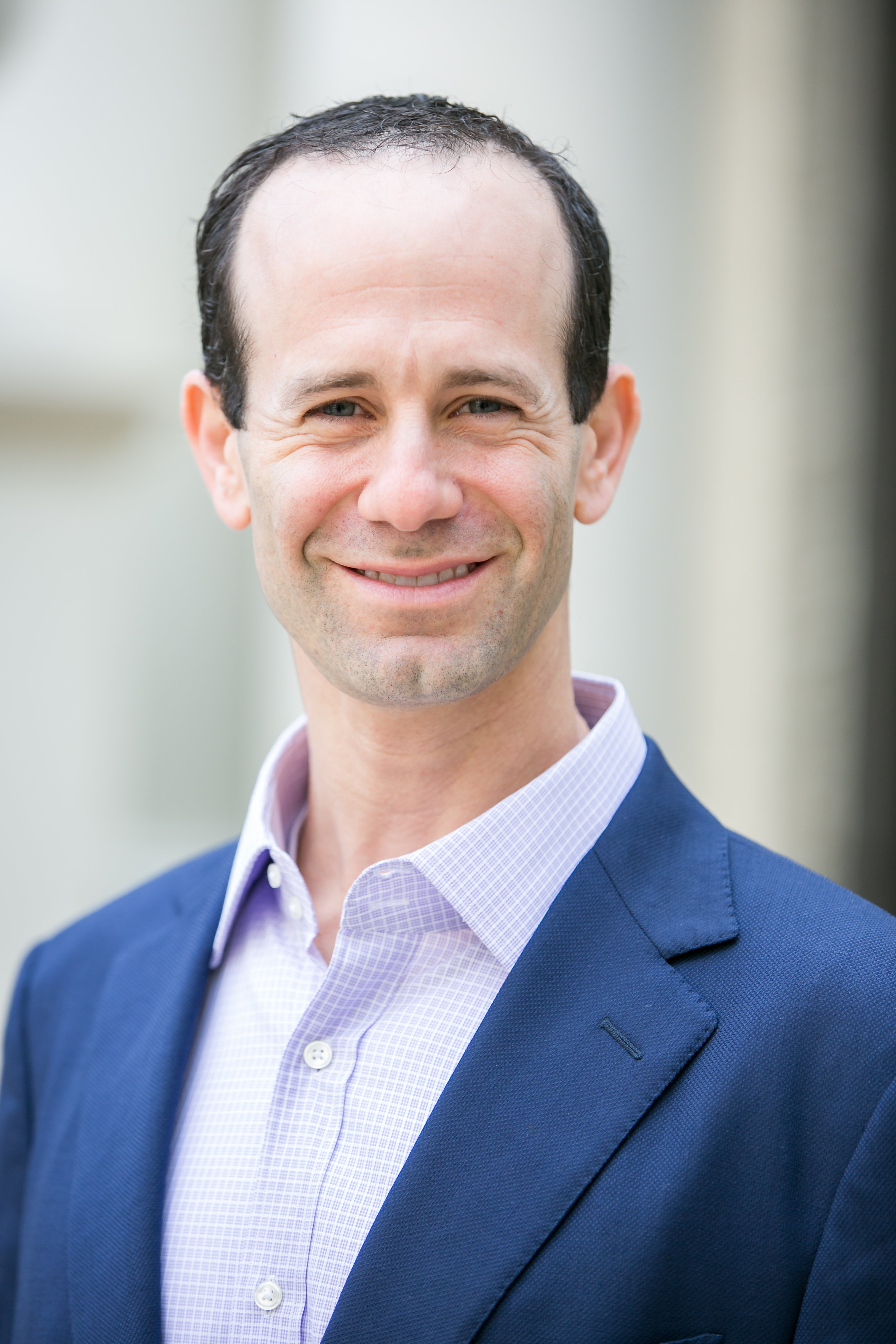 Photo of Benjamin Gordon